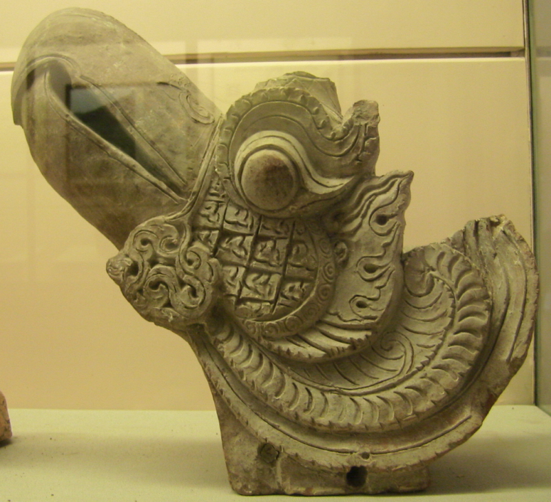 An earthern-ware phoenix head for the sake of decorating the palace in Ho Dynasty, Vietnam